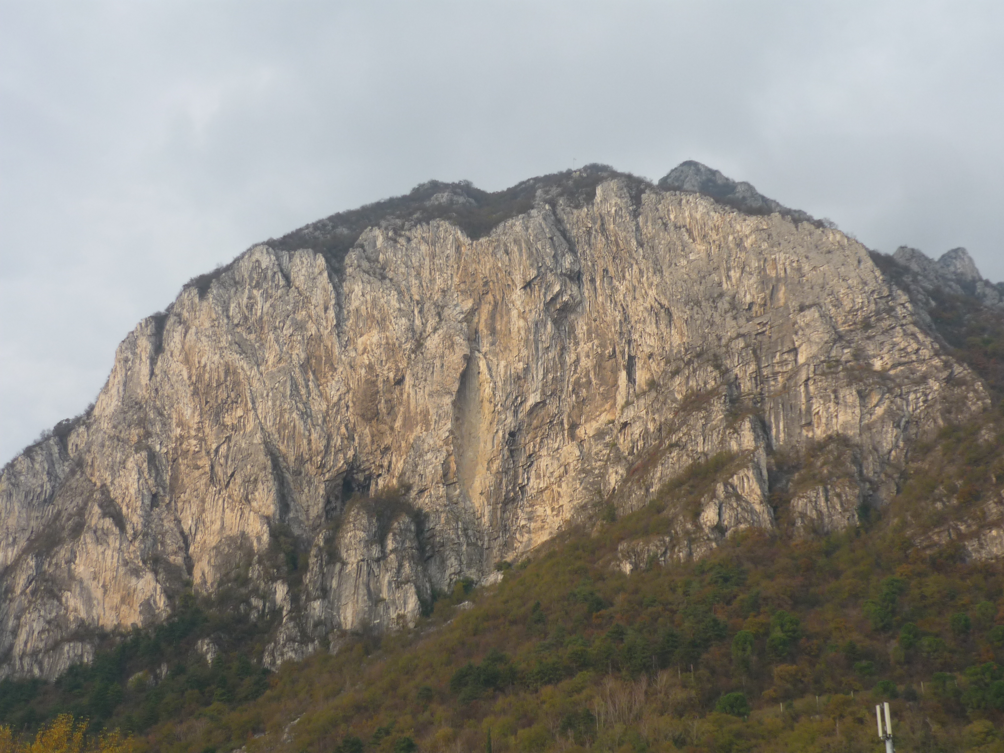 Mount San Martino's south face above Lecco city, Italy Lumbaart: Parét sud del munt San Martin suvra la cità de Lecch